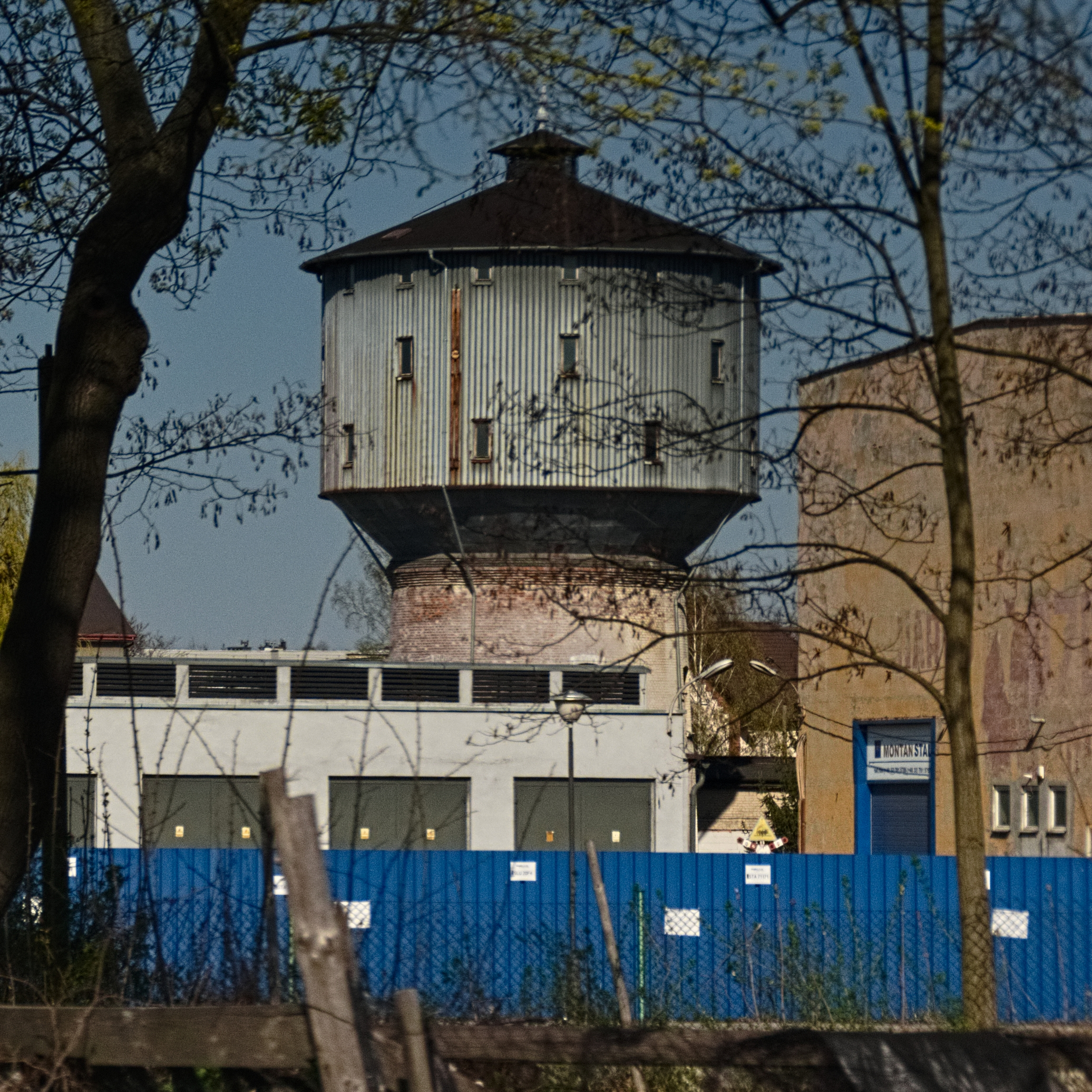 water tower in Tarnowskie Góry, Strzybnica, Zagórska Street, Zamet factory, ex-Fryderyk Smelting Works